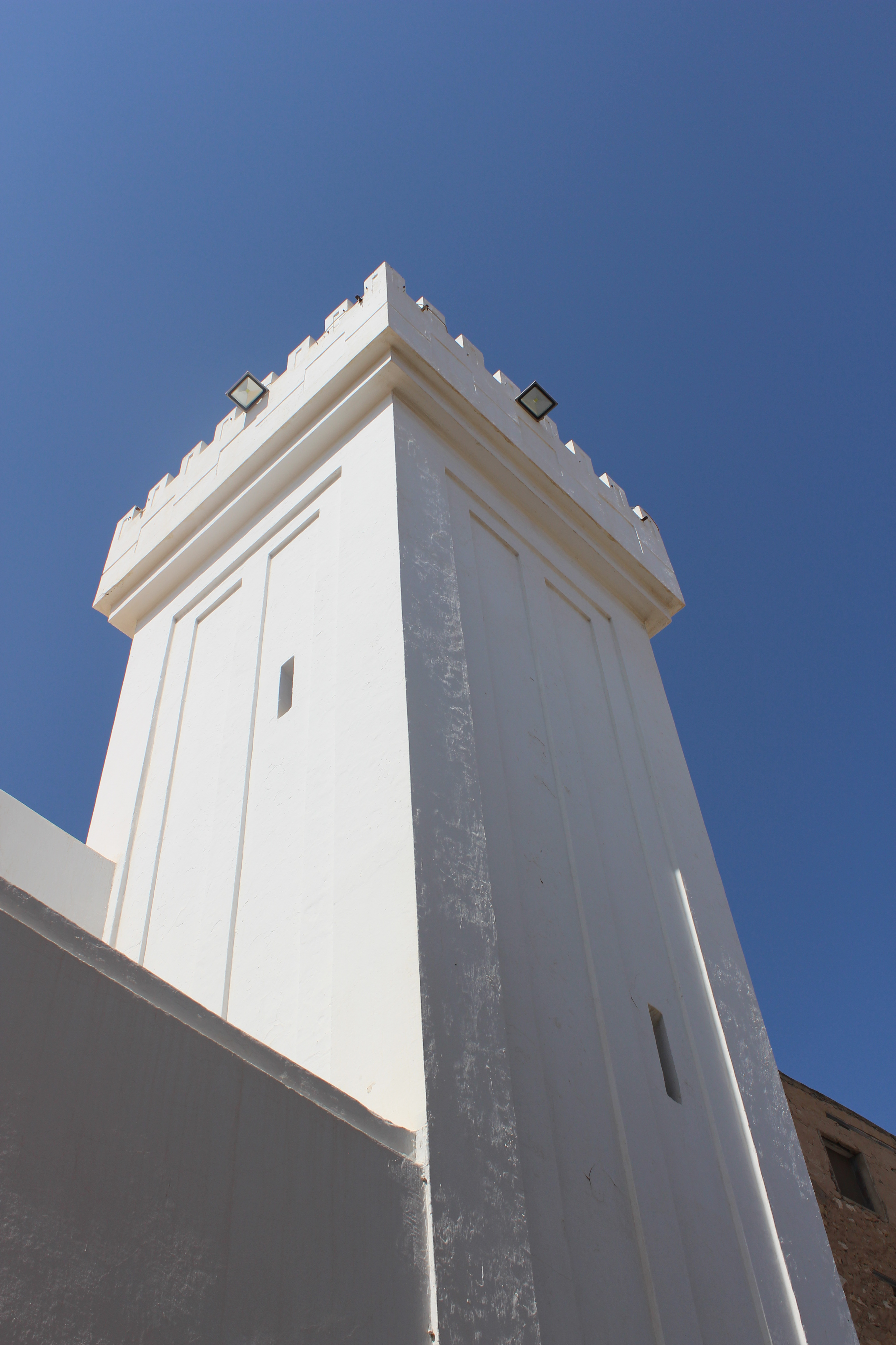 Driba mosque or Sidi Lakhmi mosque in the medina of Sfax